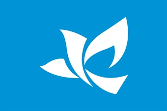 Flag of Yazu Tottori